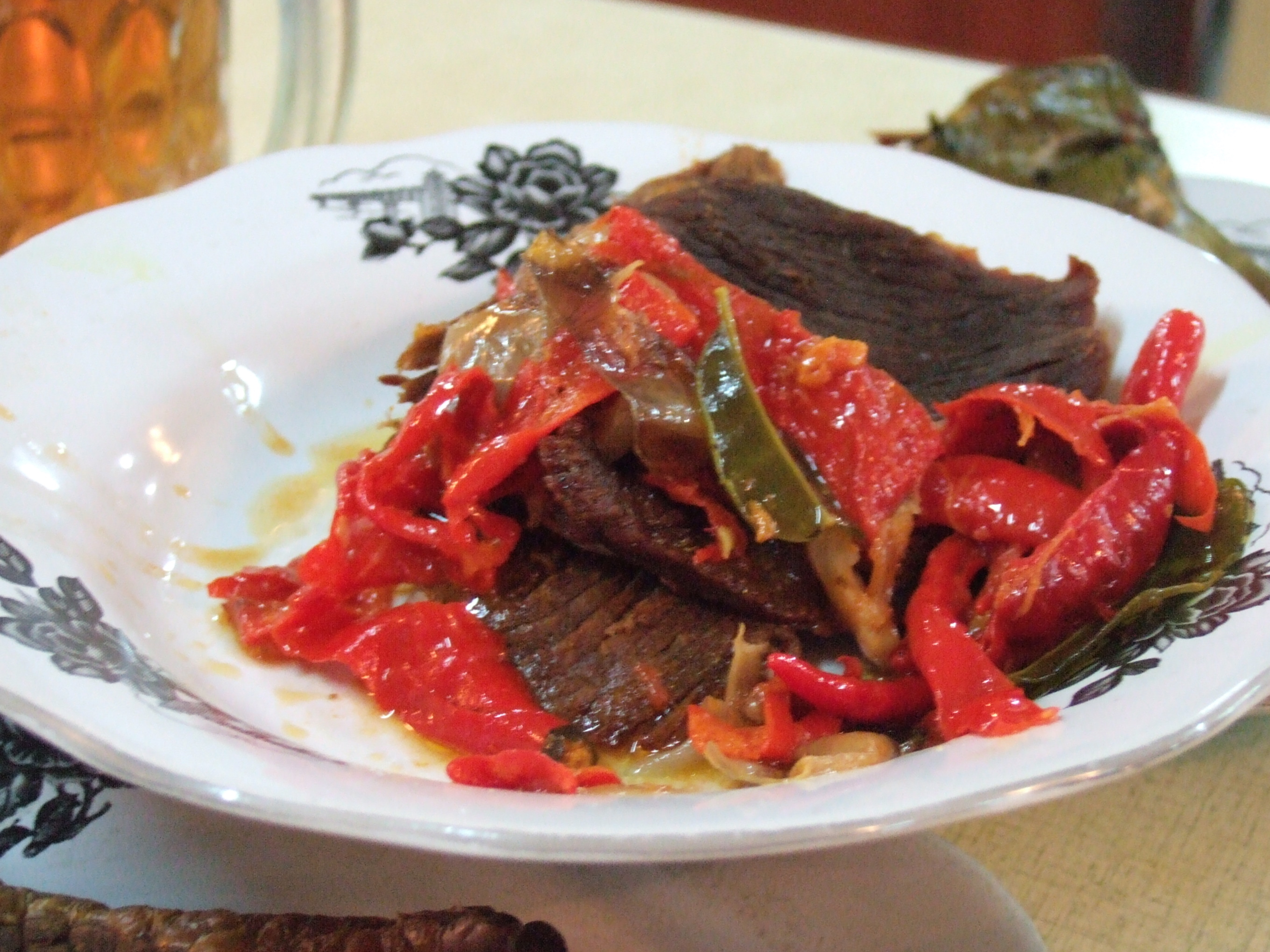 Deep fried sliced beef with chili